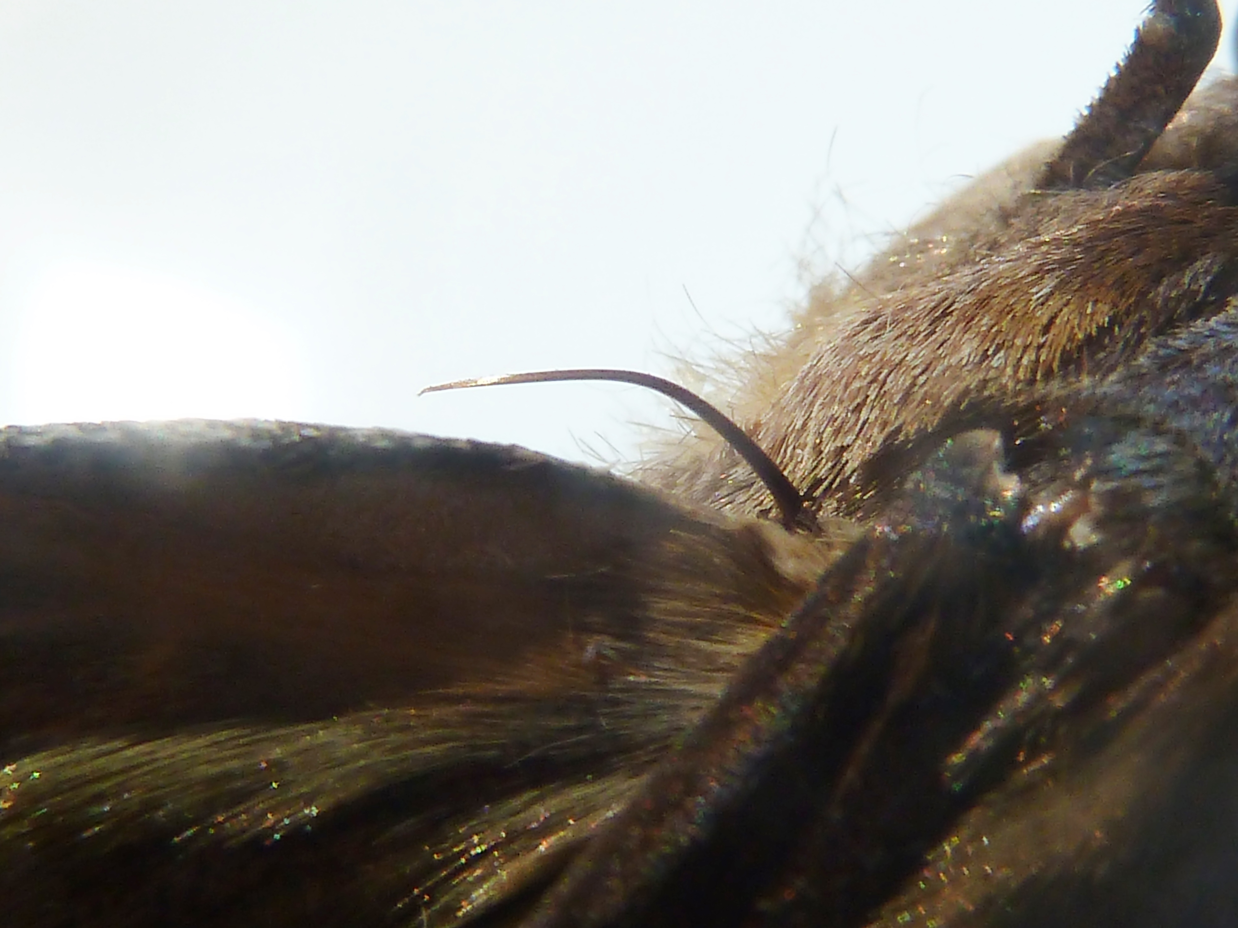 Stout, single but composite (i.e. fusion of several bristles) frenulum of a male hawkmoth, Nephele comma, as visible when the fore wing is pulled back. It arises from a sclerotized base at the humeral angle of the hind wing, and fits behind a membraneous hook, called the retinaculum, on the ventral side of the fore wing. In hawk moths, the females have three (rather than one, groups of) bristles, but these are also attached to a sclerotized frenulum base as in males.[1][2][3] ↑ (1990) Moths of Australia, Leiden: Brill, p. 24 ISBN: 9789004092273. ↑ (1978) Dispersal Centres of Sphingidae (Lepidoptera) in the Neotropical Region, Dordrecht: Springer Netherlands, p. 18 ISBN: 9789400999602. ↑ (1997). "The Sphinx Moths (Lepidoptera: Sphingidae) of Nebraska". Transactions of the Nebraska Academy of Sciences (24): 91-93. Retrieved on 18 April 2016.